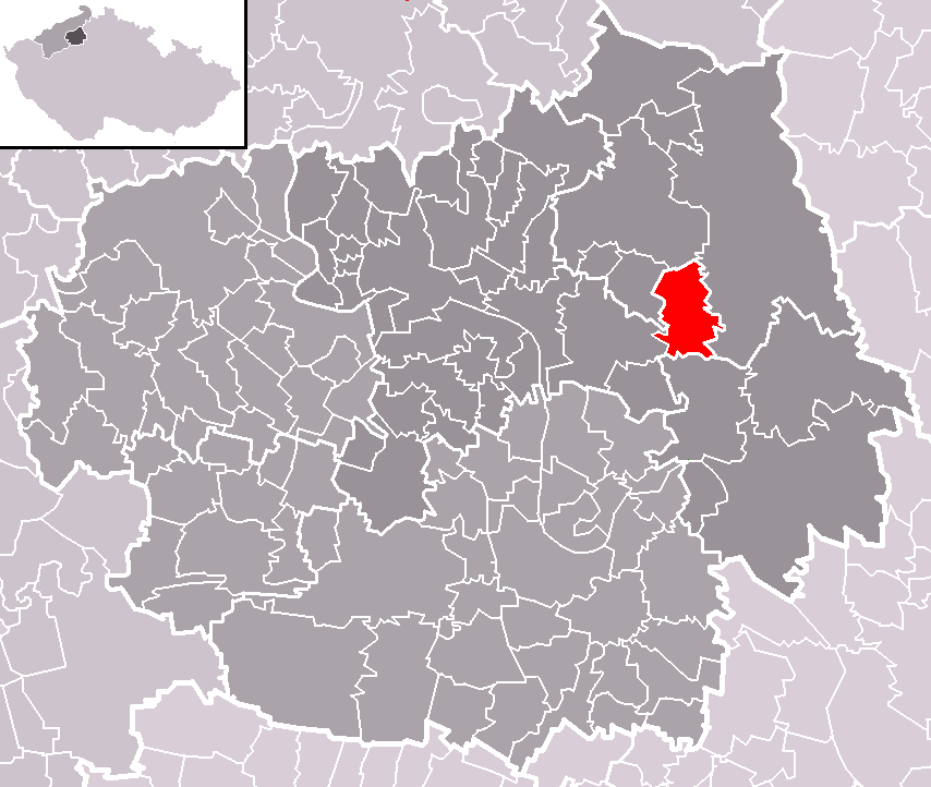 Location of Drahobuz municipality within Litoměřice District and administrative area of Litoměřice as a Municipality with Extended Competence.